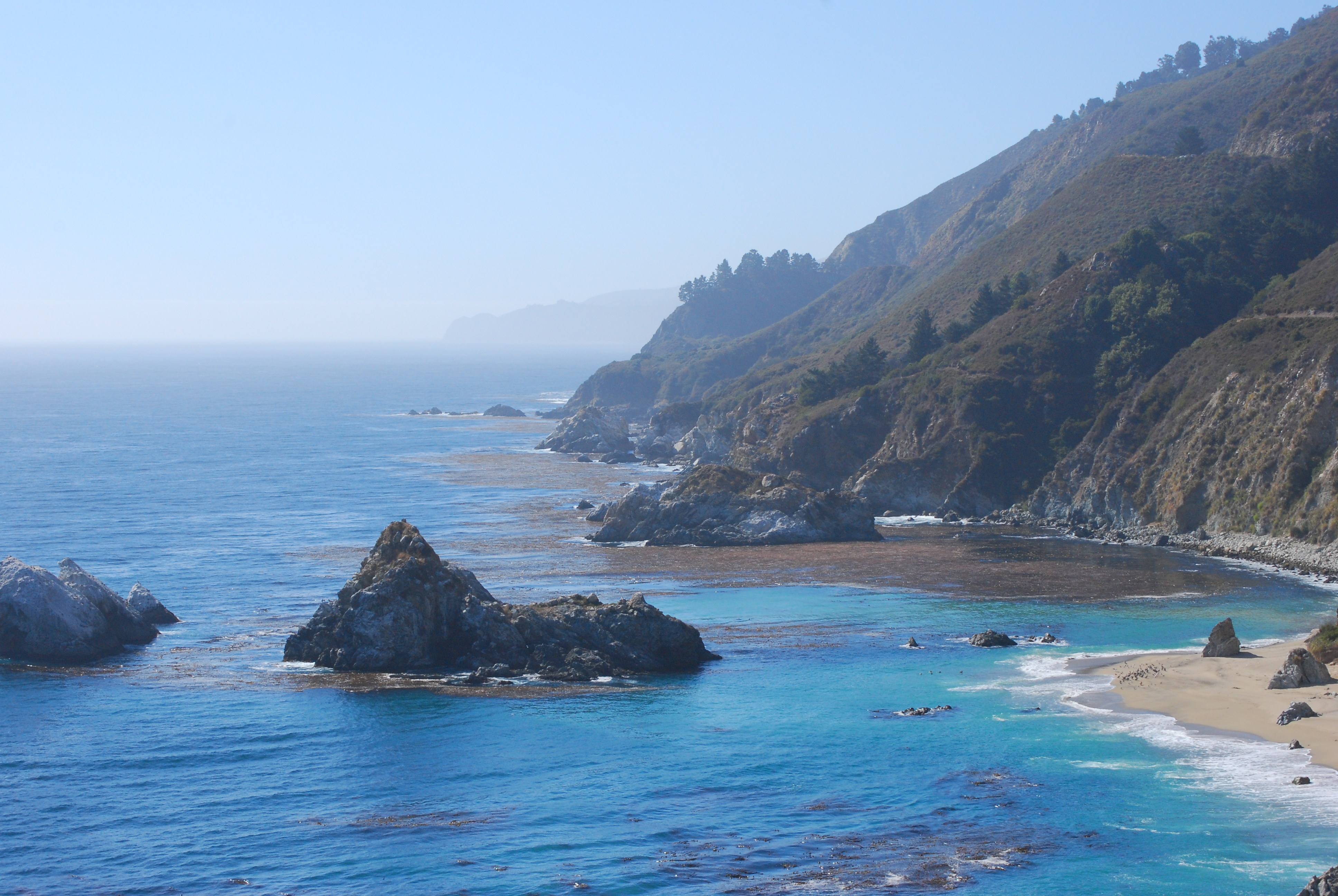 Big Sur, California